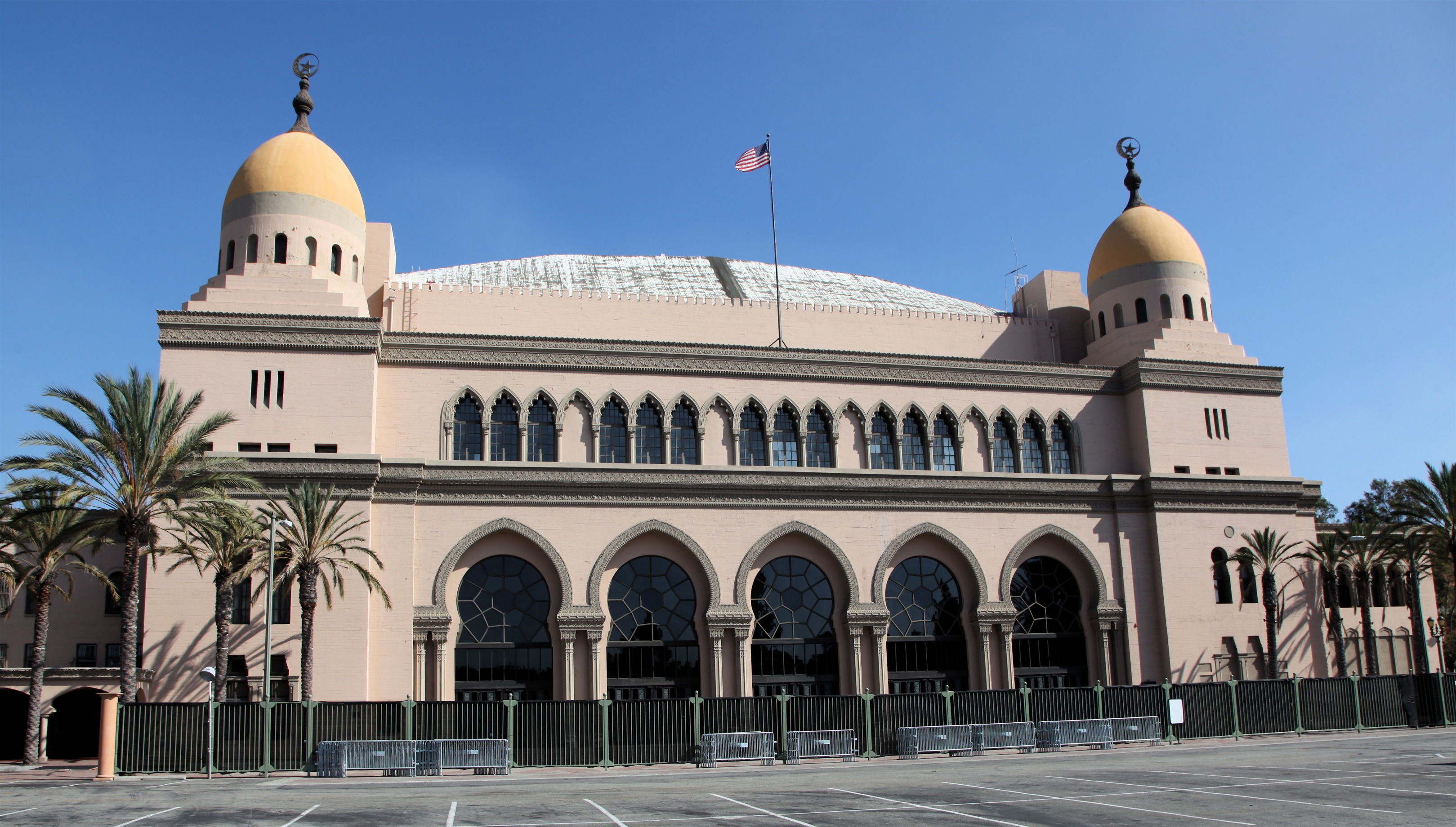 Al Malaikah Temple - Shrine Auditorium